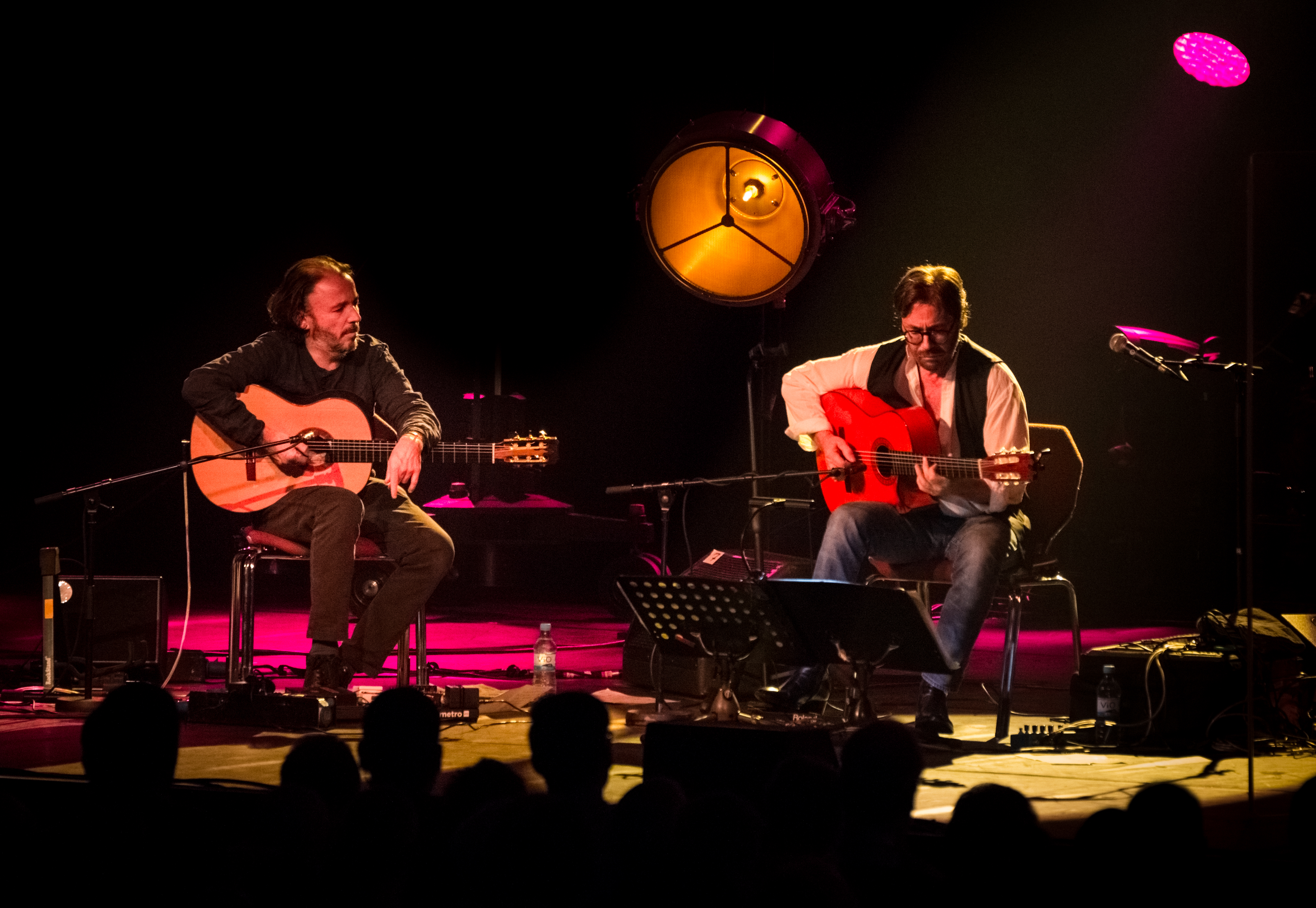 Al Di Meola with Peo Alfonsi (2nd Guitar) and Peter Kaszas (Drums, Percussion) - Leverkusener Jazztage 2016